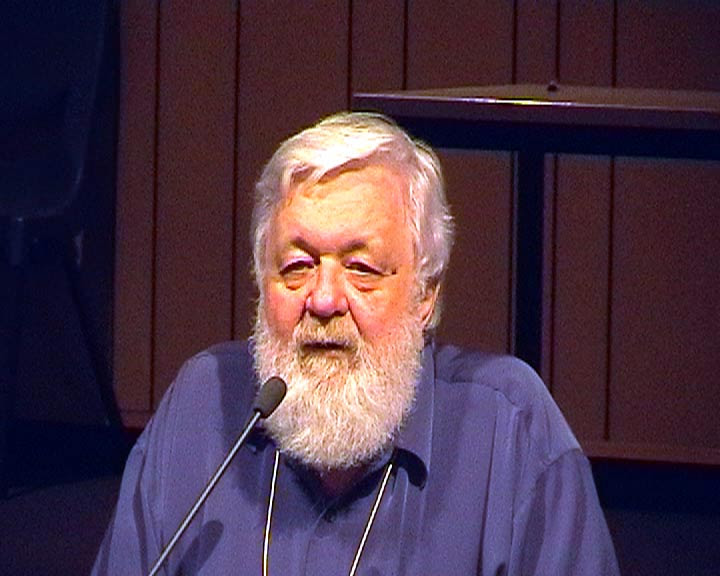 Barry Williams talking at an Australian Skeptics convention in the 2000s.